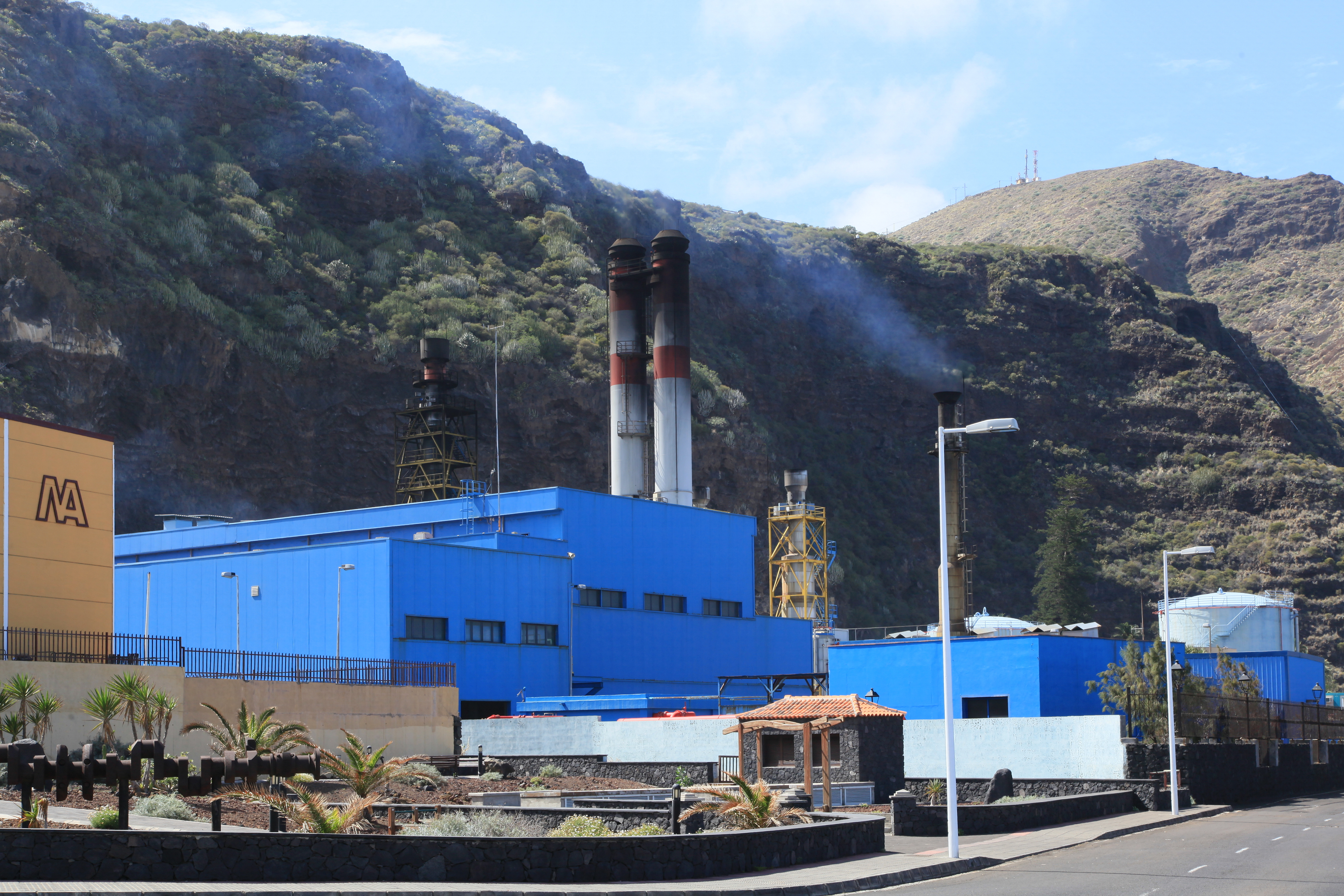 Central térmica Los Guinchos, Avenida Bajamar in Breña Alta, La Palma, Canary Island, Spain